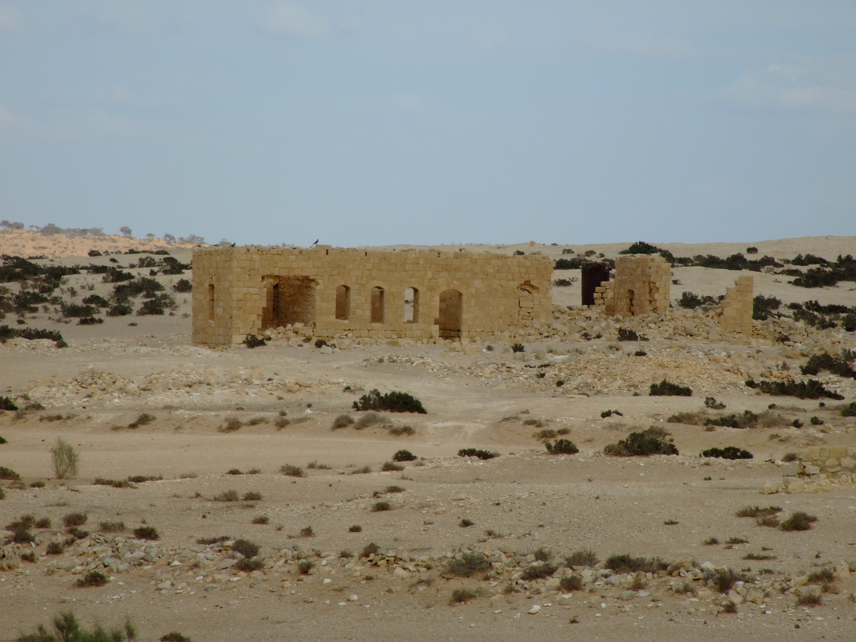 Flour mill in Haluza, of the remains of the Palestinian village Khalasa